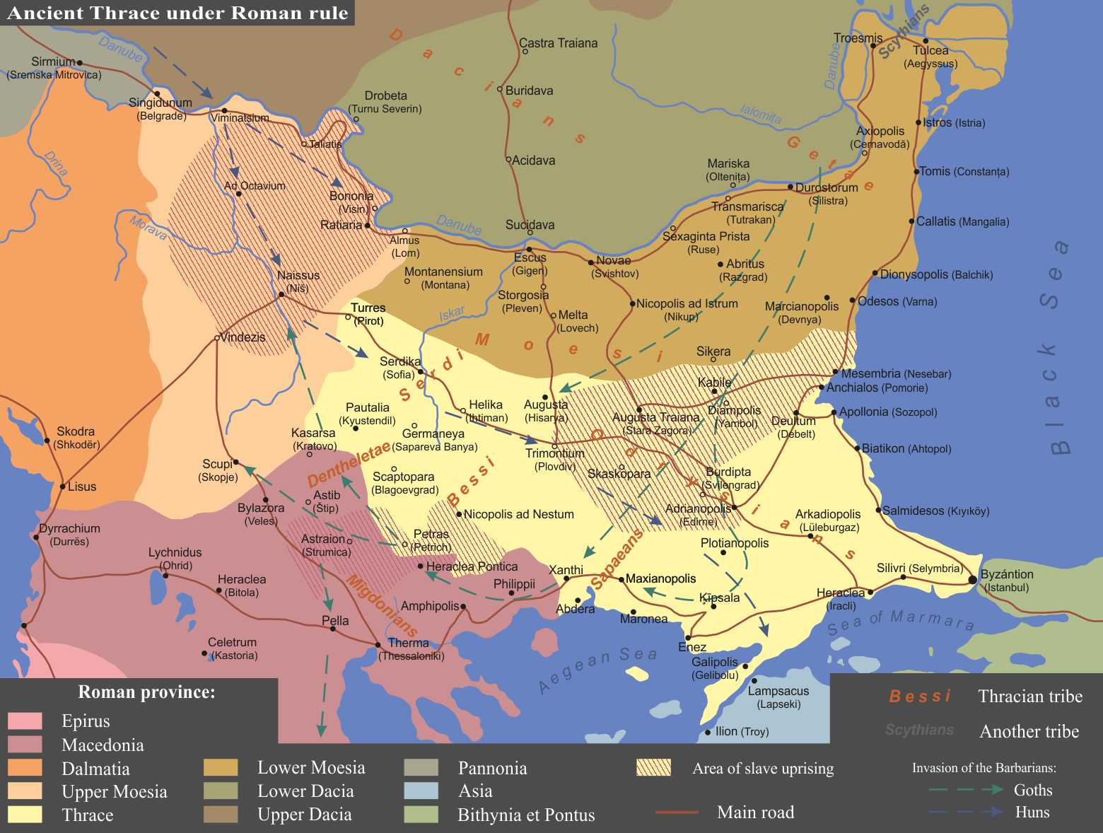 Ancient Thrace under Roman rule (I-IV century) Основана на картата "Древна Тракия под римска власт (І-IV век)" в "Атлас по история на България за средните училищя", Временно издание, "Картография", София, 1990 г.